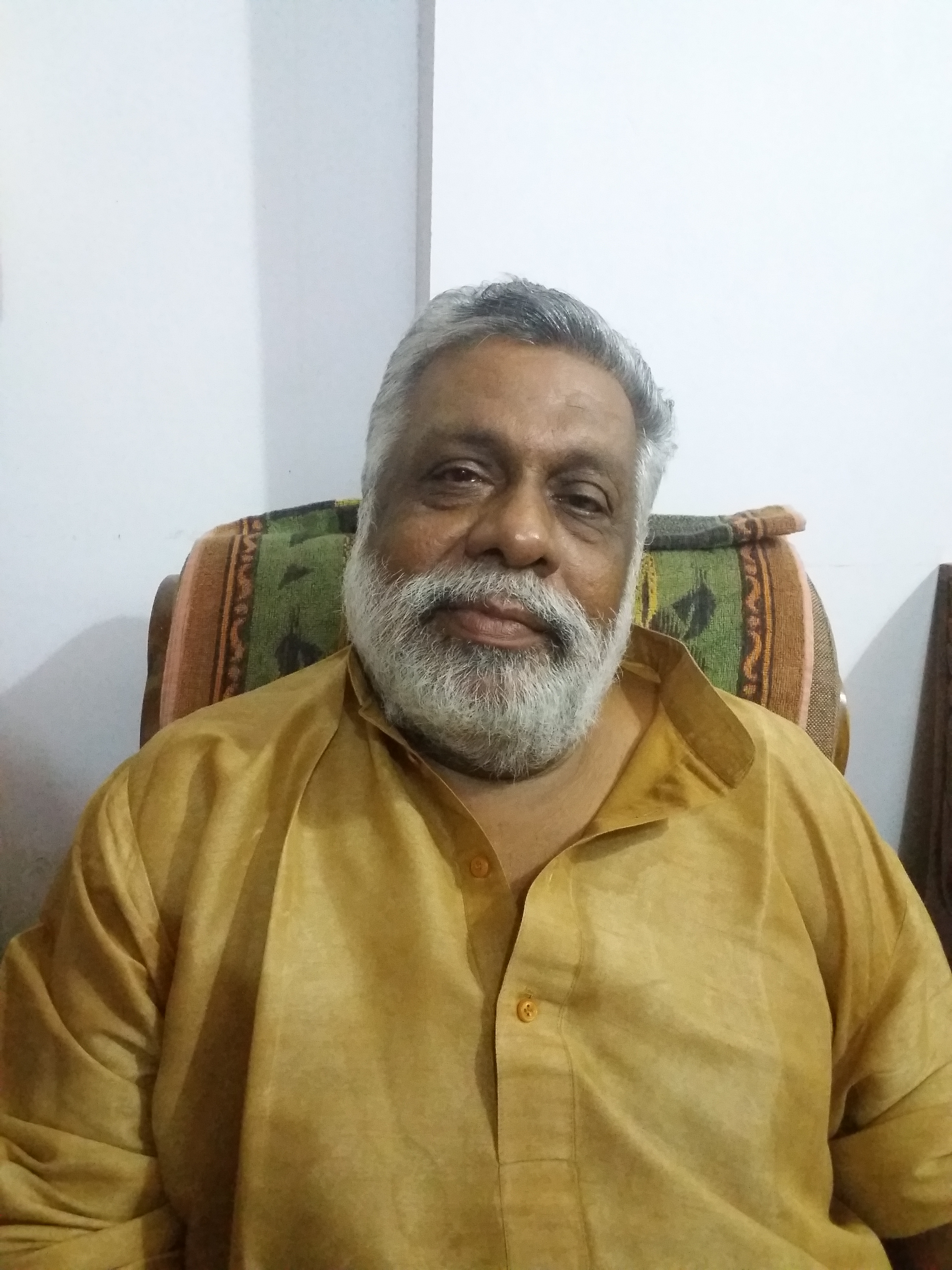 Alleppey Benny